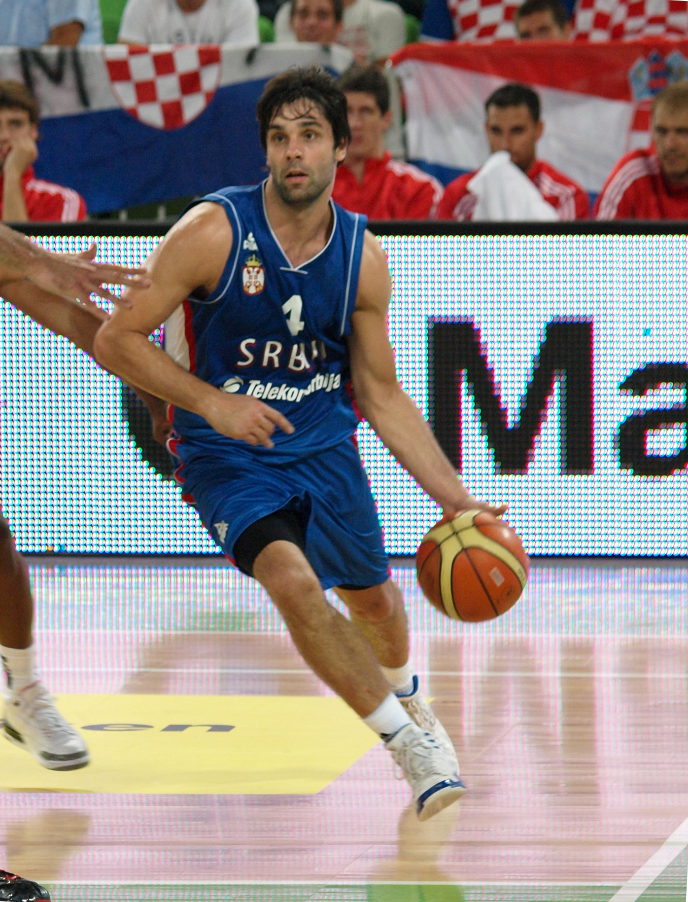 Miloš Teodosić. Adecco finals 2011.